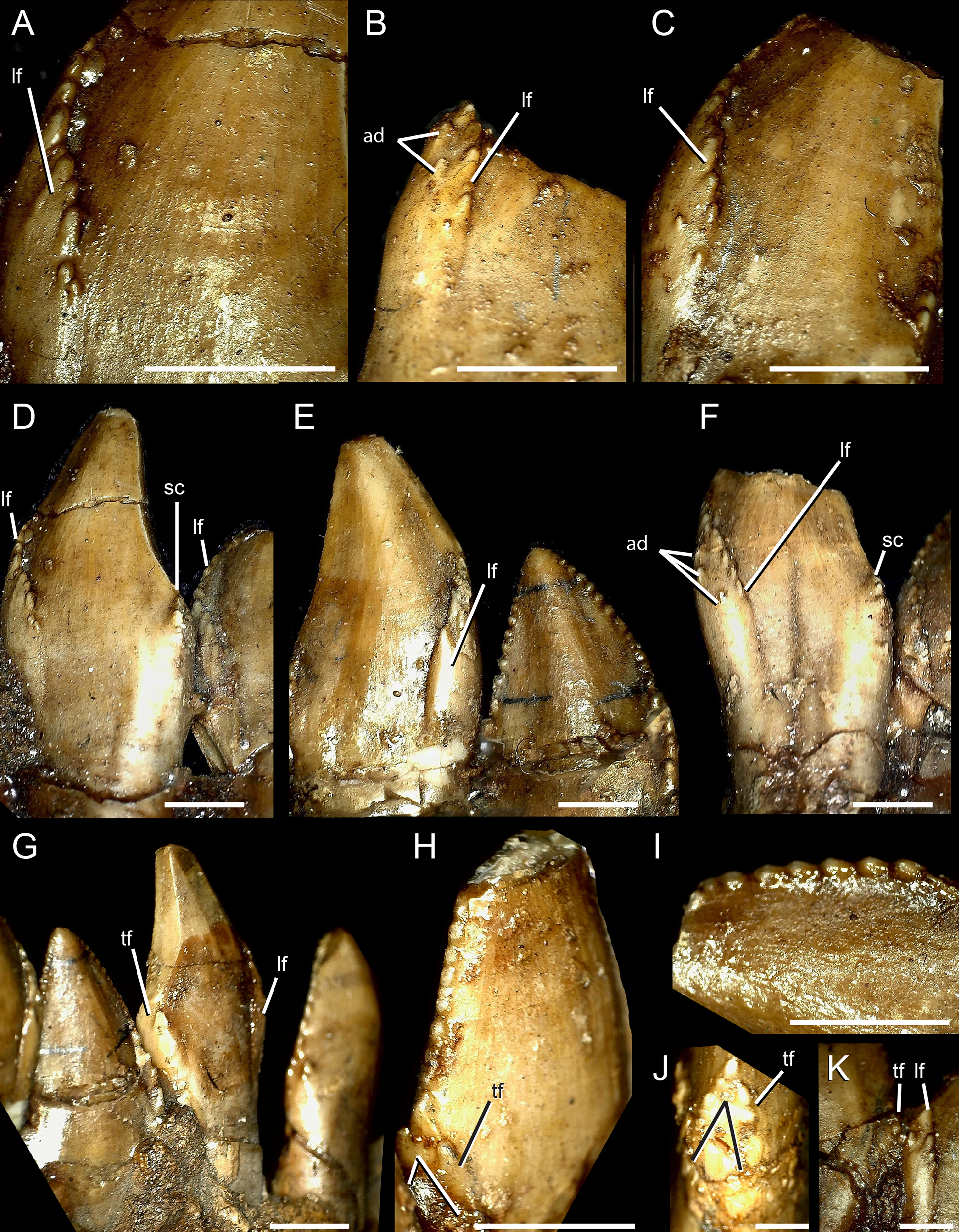 Dentary teeth of Segnosaurus galbinensis MPC-D 100/80. (A–H) mesial dentary teeth in lingual view; (I) mesial denticles in lingual view; (J) magnification of triangular prong (bifurcated distal carina); (K) magnification of junction between folded mesial carina and triangular facet near base of crown on distal carina. (A) crown 8; (B) crown 13; (D) crowns 8 and 9 from left to right; (E) crowns 5 and 4 from left to right; (F) crown 6; (G) crowns 5 through 2 from left to right; (I) crown 6. Abbreviations: lf, lingual folding of the mesial carina; ad, accessory (extracarinal) denticles; tf, triangular facet. Scale bar 3 mm (A–I) and 1 mm (J, K).